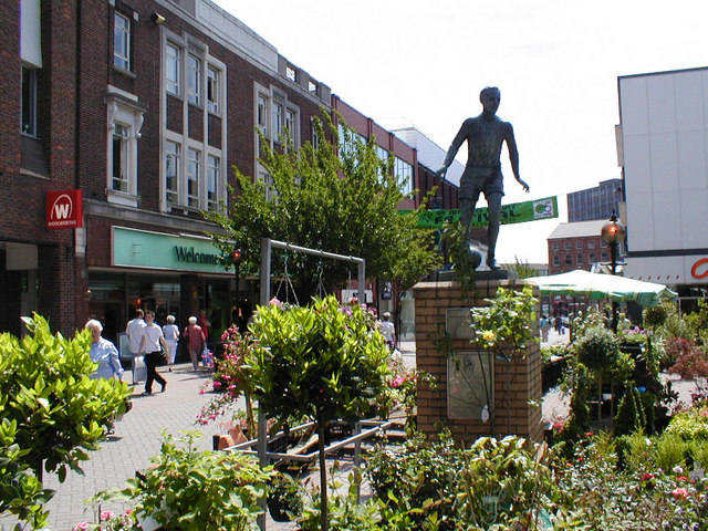 Stanley Matthews' statue in Hanley town centre